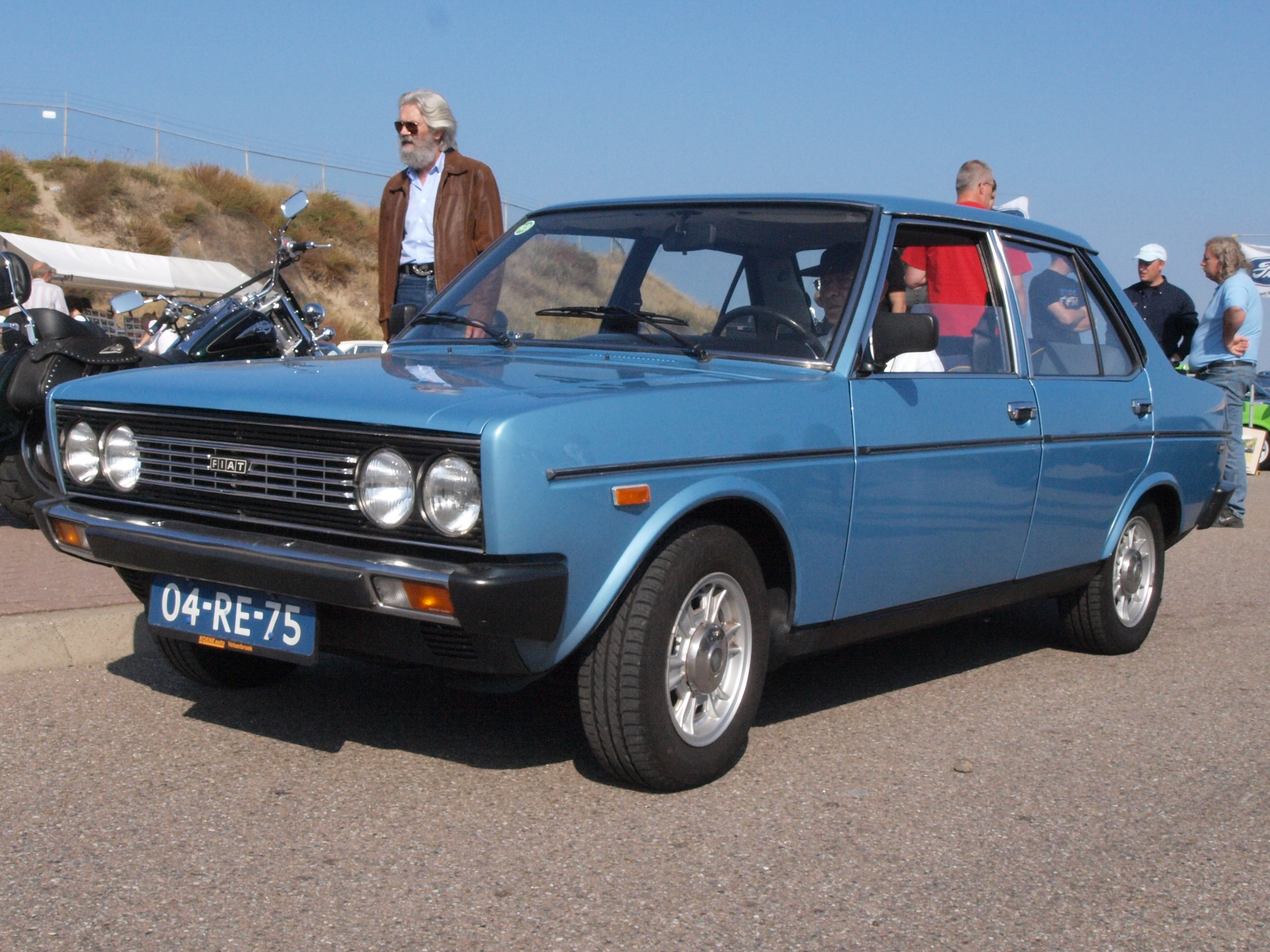 Photographed at the Nationaal Oldtimer Festival Zandvoort 2009, The Netherlands. OLYMPUS DIGITAL CAMERA